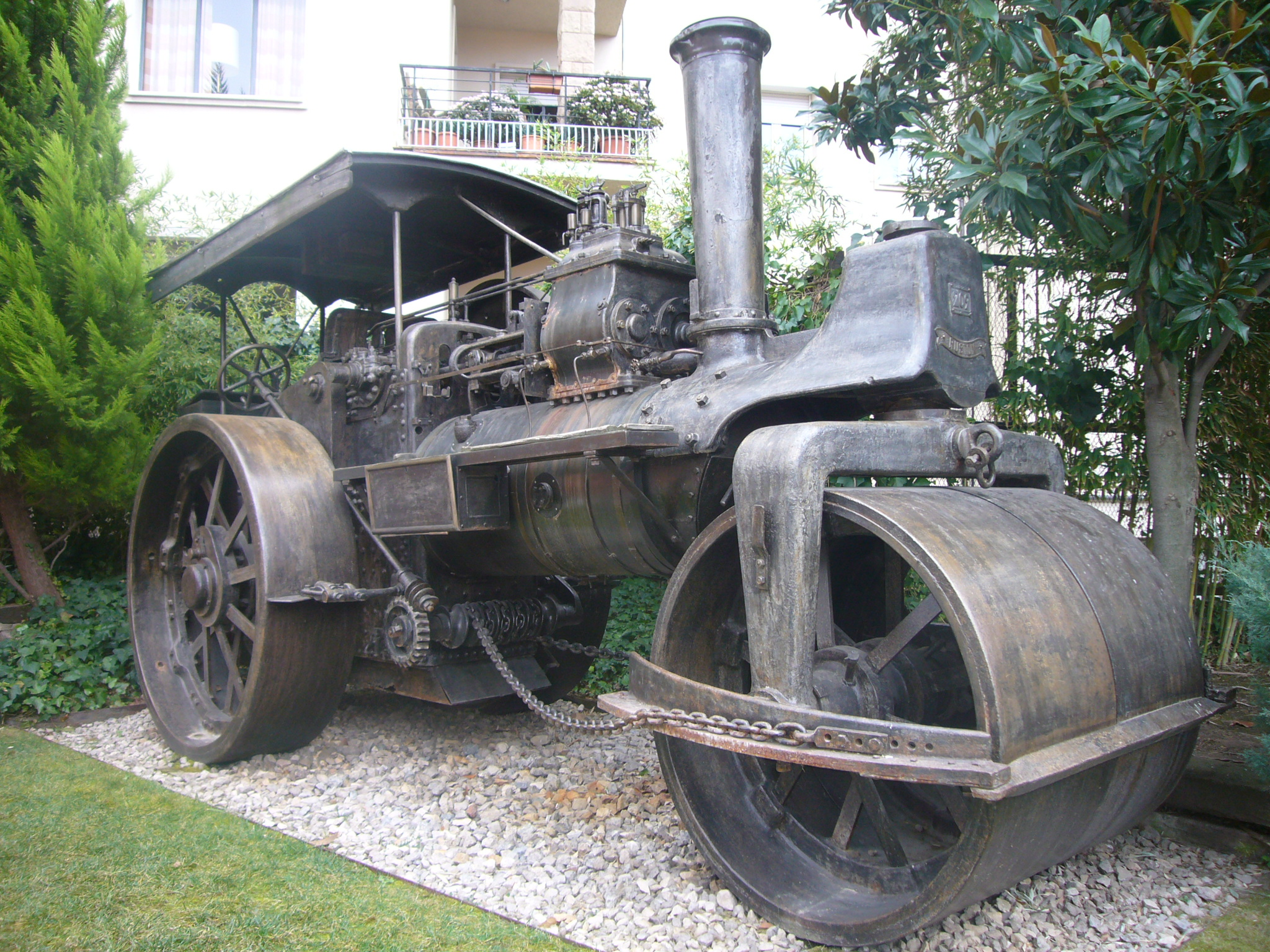 Steam-powered roadroller in mNactec museum, in Terrassa, Catalonia. Was built in 1920 by Ruston in England. Weight 20 tons